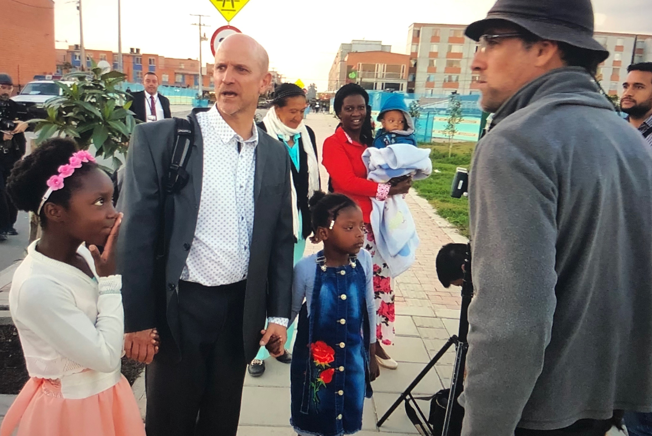 Abbott on set.